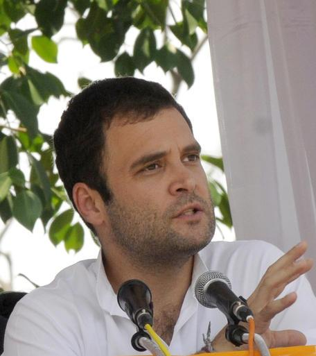 Rahul Gandhi at a rally in Kochi